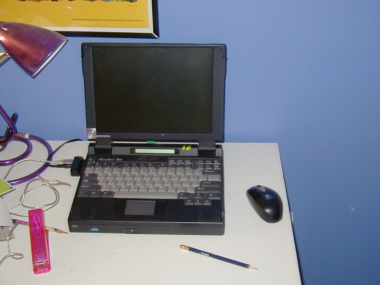 A Micron TransPort XPE laptop computer (currently in standby). This machine in particular has a few things not originally available when the machine came out that I bought later, including a USB adapter (visible on the left side of the system) and a wireless mouse.